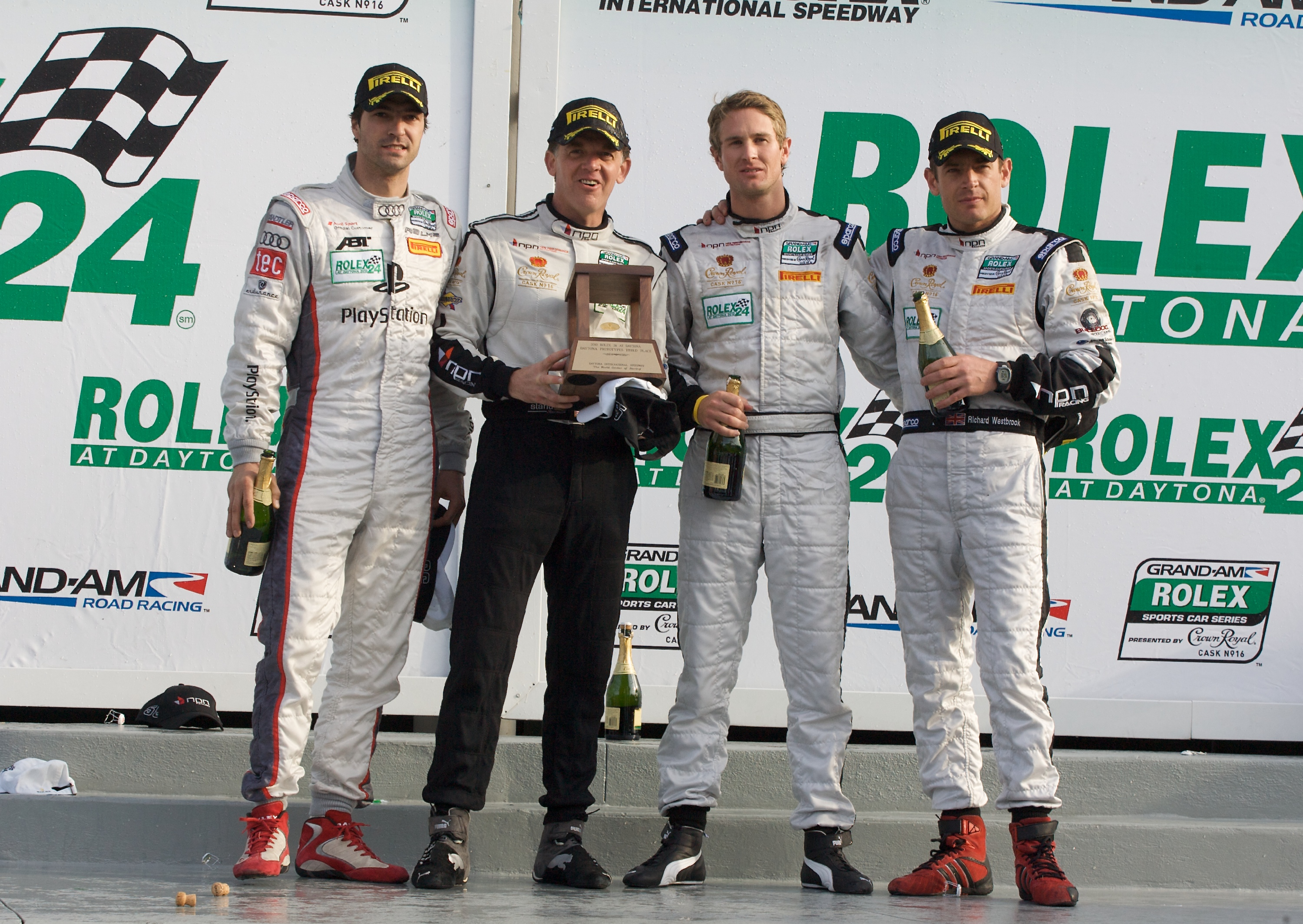 Scott Tucker at the 2010 24 Hours of Daytona. ScottTucker with co-drivers Richard Westbrook, Ryan Hunter-Reay, and Lucas Luhr at Daytona.